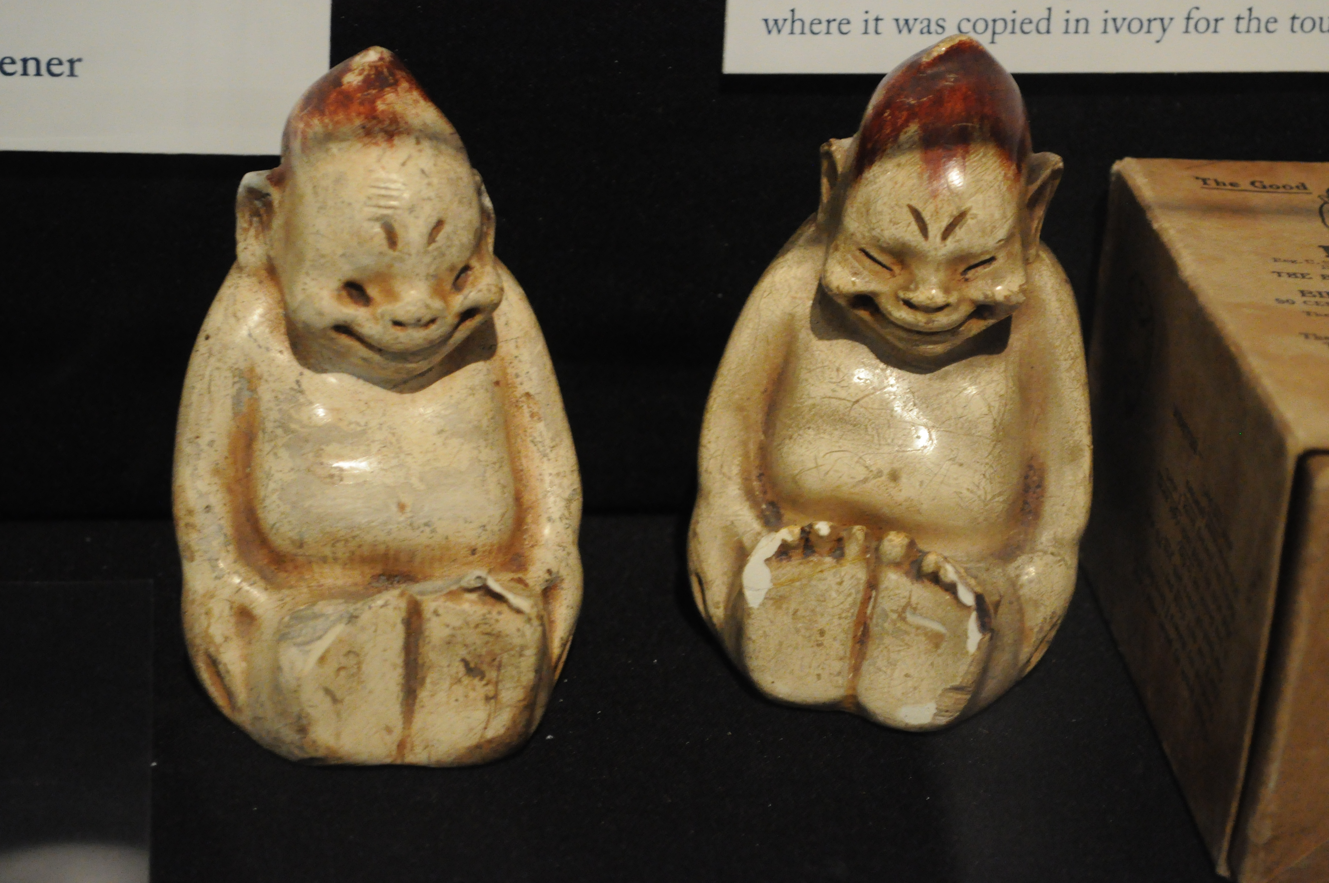 Two billikens, Museum of History and Industry, Seattle, Washington. These were souvenirs of the 1909 Alaska-Yukon-Pacific Exposition.